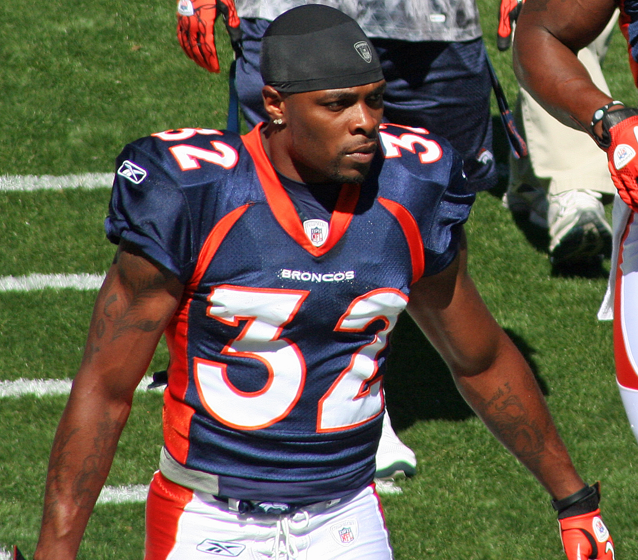 Perrish Cox, a player on the Denver Broncos American football team.